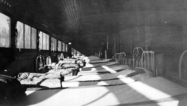 Image title: THE SIDE BALCONY OF THE DORMITORY OF KOORINYA BOARDING HOUSE AT THE PRESBYTERIAN LADIES COLLEGE. THE BEDS ARE ARRANGED IN A LONG ROW, ALL WITH WHITE IRON BEDHEADS. THE BEDS ARE MADE WITH MATCHING LINEN AND EACH HAS A FOLDED QUILT AT THE FOOT. Description: Dormitory at the Presbyterian Ladies' College, Melbourne, circa 1875.